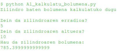 Example of a simple program running in Python that calculates a formula with some values (the volume of a cylinder)